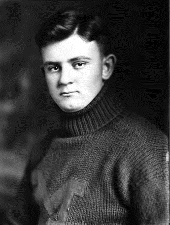 Photograph of William D. Cochran